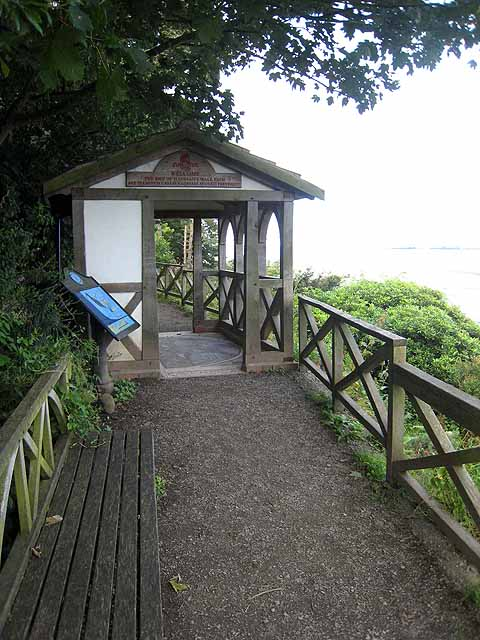 Western end of the Hadrian's Wall National Trail This gazebo marks the western end of the Hadrians Wall National Trail which runs 84 miles from Bowness-on-Solway to Wallsend.